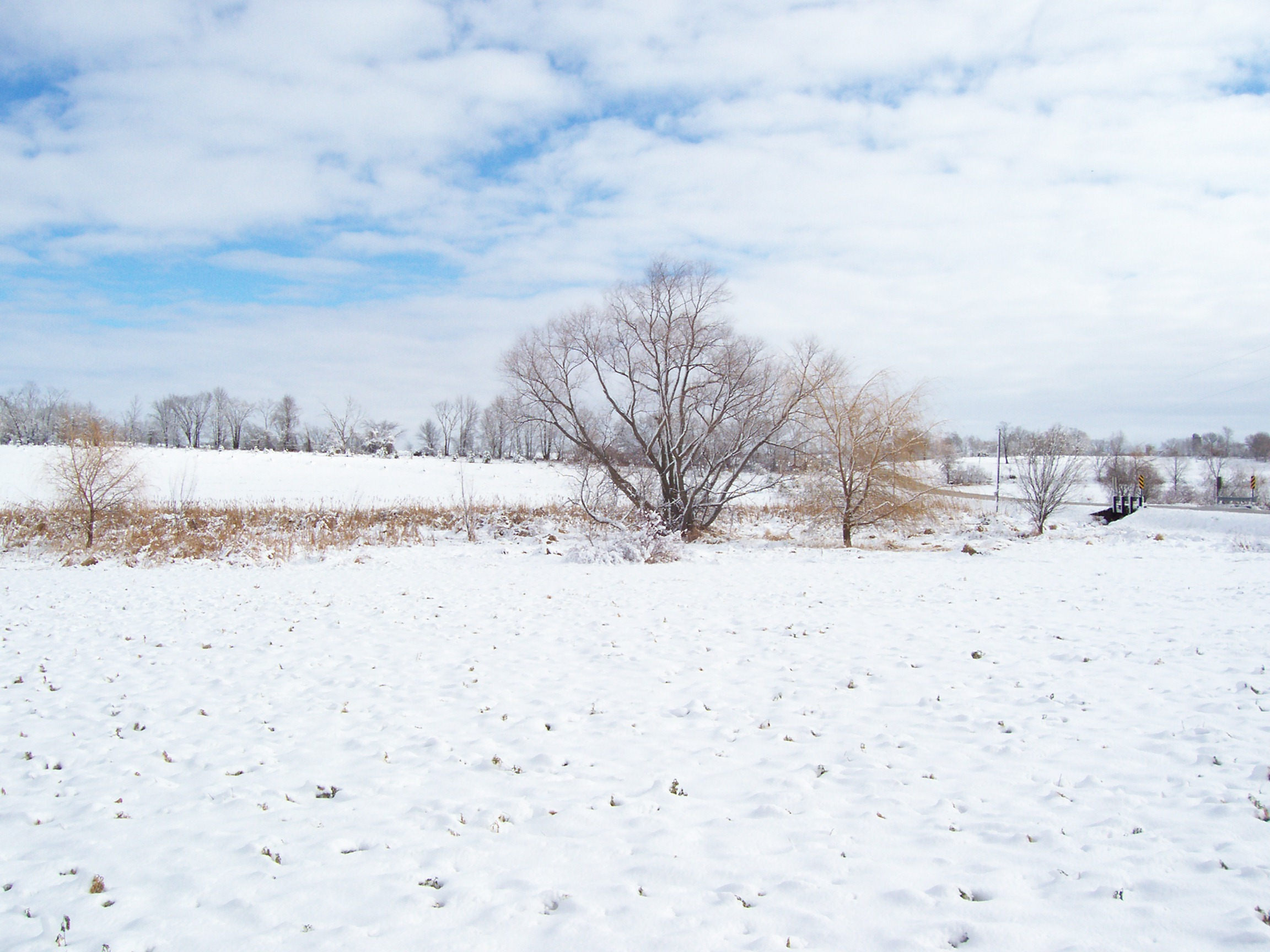 typical mix of farm fields, woods, and occasional swamp land in Calumet County, Wisconsin, USA after a snowfall.